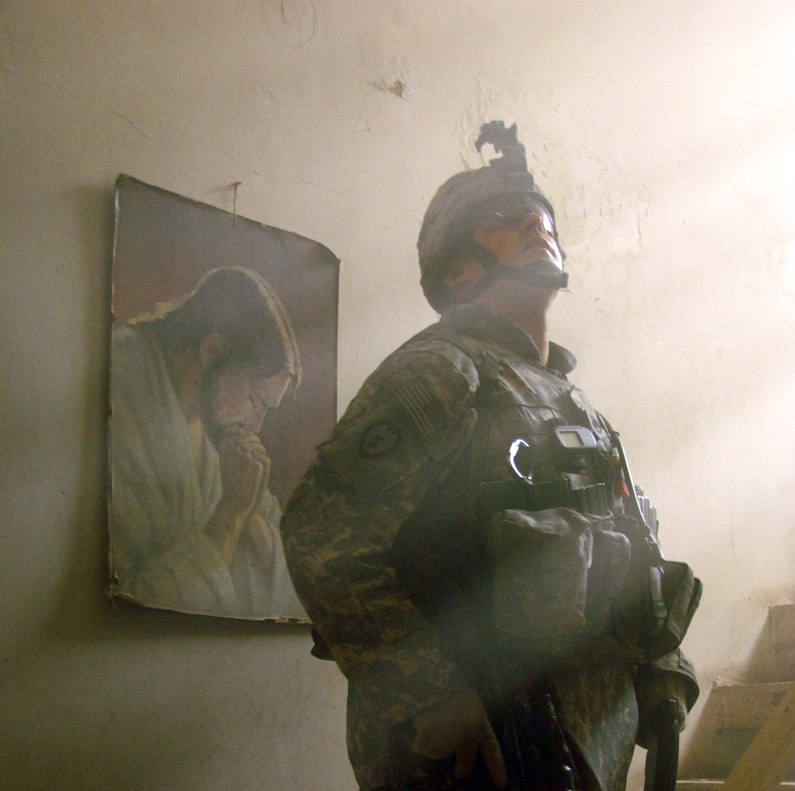 A U.S. Soldier from the Nemesis troop, 3rd Squadron, 2nd Stryker Cavalry Regiment clears a house after one of the regiment's Stryker vehicles gets hit by an improvised explosive device, October 18, 2007, Baghdad, Iraq.(Photo by Luke Thornberry)